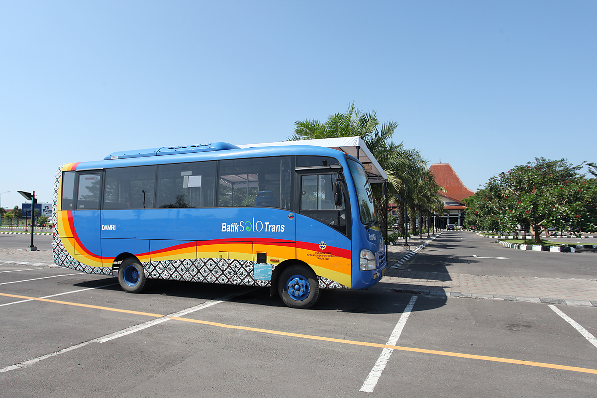 CoolFrame Photography